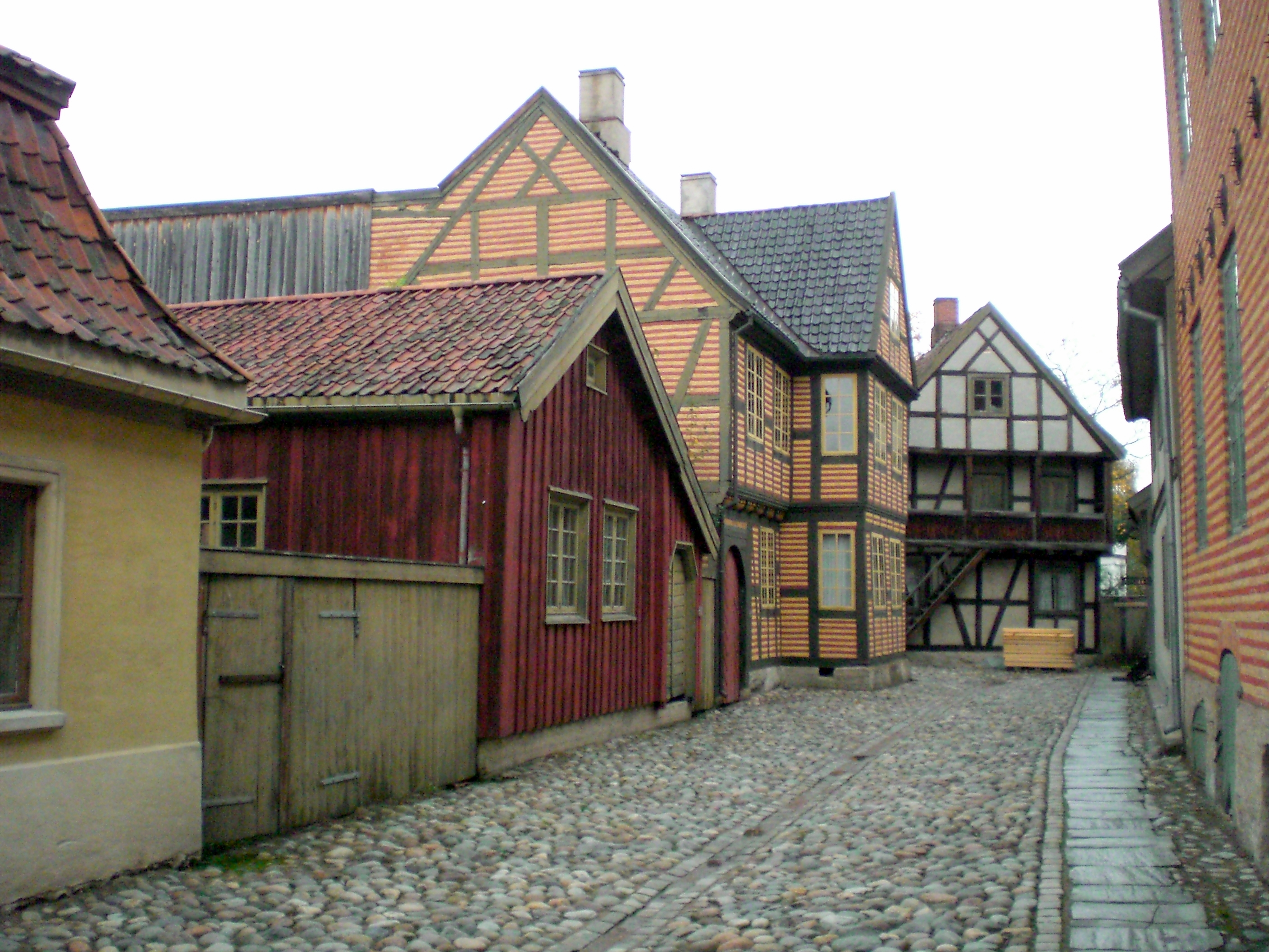 This view from Norsk folkemuseum in Oslo includes a (pinkish) townhouse from Oslo built in the 1600s (and the only half-timbered house preserved from the town, which was called Christiania in those days). Nearer to us, the dark red townhouse was built in 1700, and the roof was once covered in soil and grass. See where this picture was taken. [?]